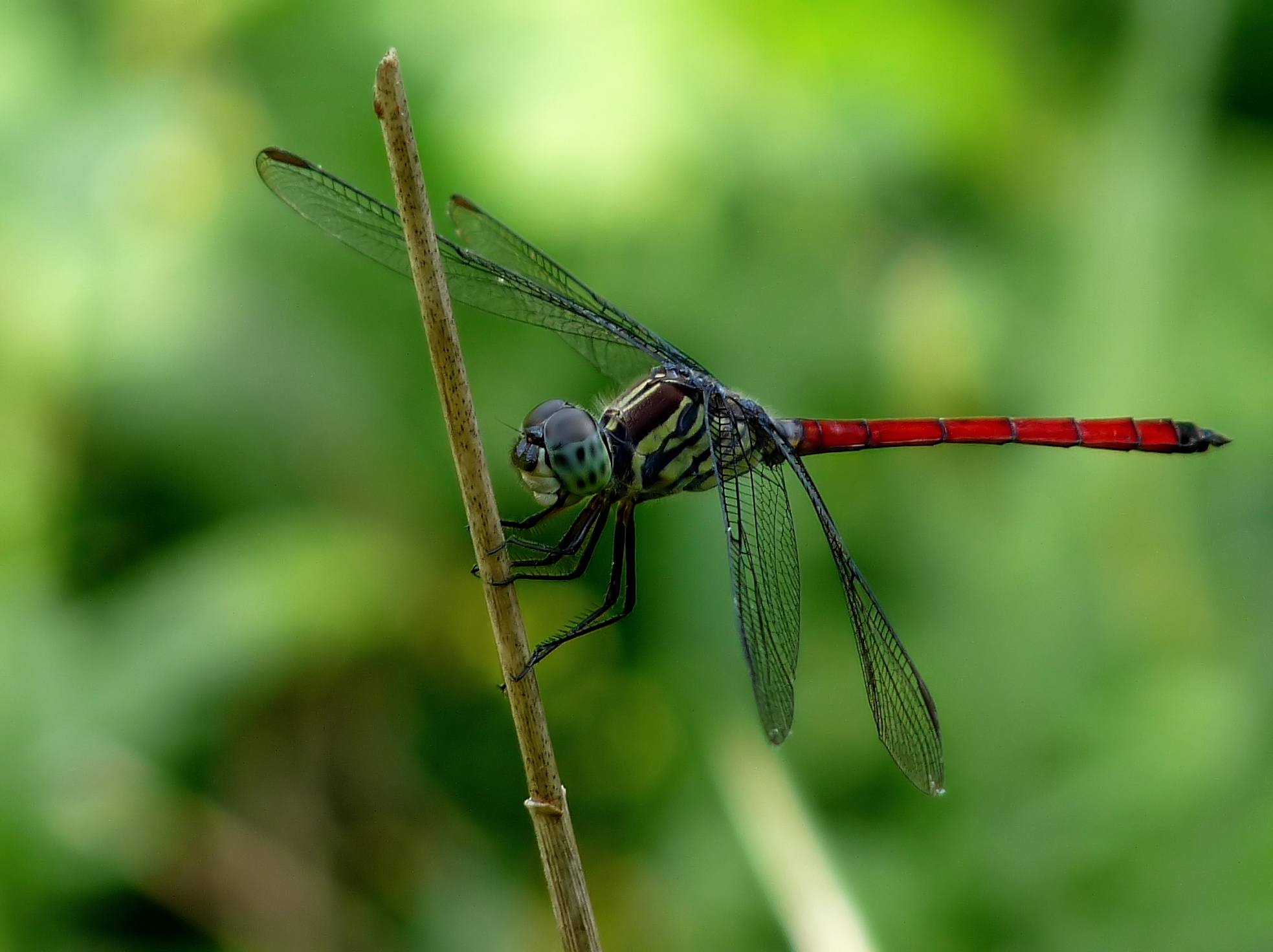 Asiatic Blood Tail (Lathrecista asiatica), male Lathrecista asiatica, Asiatic Blood Tail, is a species of dragonfly in family Libellulidae. It is the only species in its genus. The species is widespread, occurring from India to Australia. The male is identifiable with its bright red abdomen and black caudal appendages. The thorax is heavily pruinosed in grey/blue. The young male is quite different to that of the male. Its thorax isn't pruinosed allowing you to see the thoracic markings clearly and their abdomen is more of an orange colour not blood red. Also, the coloured wings tips are more obvious. The female is much paler than the male (more like the young male) and is easily mistaken for the extremely common Potamarcha congener. The markings on the thorax, however, are different and the thorax is more of an orange colour. It doesn't have large caudal appendages like P. congener either. Taken at Kadavoor, Kerala, India.